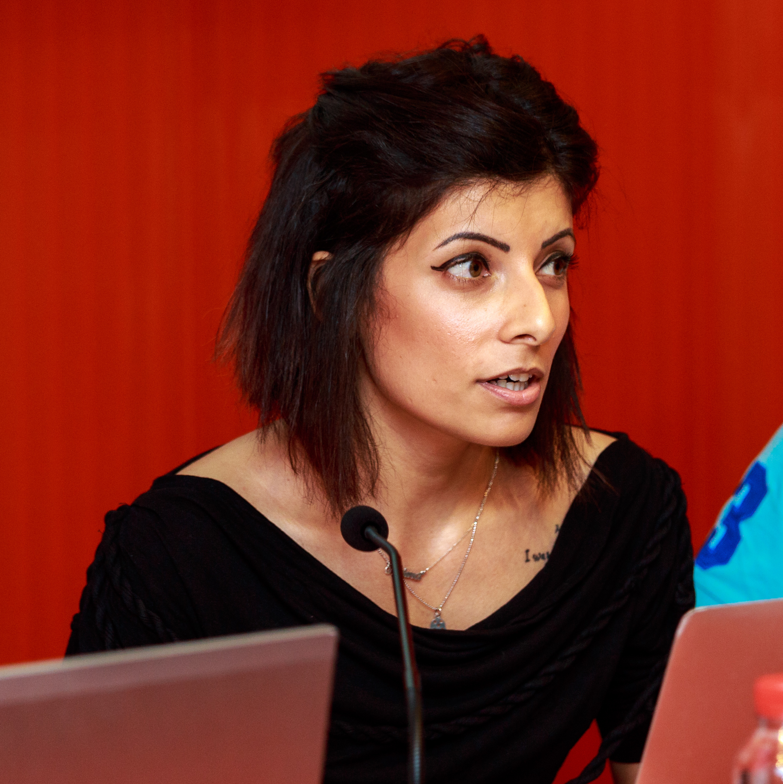 Najma Kousri. Madrid Summit. WorldPride 2017 in Madrid.